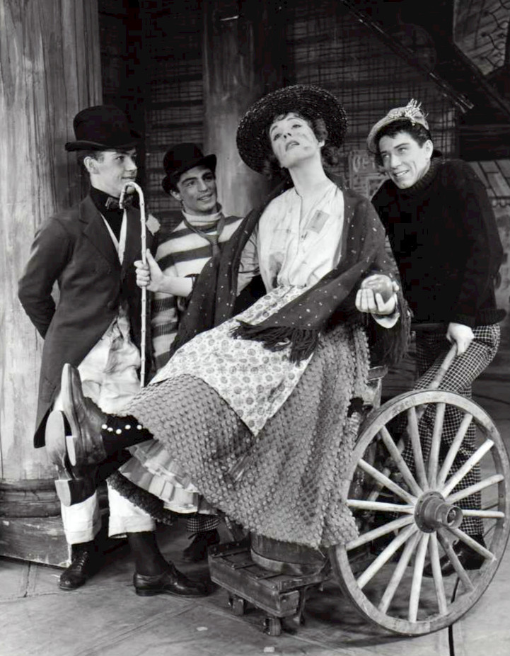 Photo of Julie Andrews and cast from My Fair Lady. In this scene, Eliza and her friends dream of a better life-"Wouldn't It Be Loverly?".